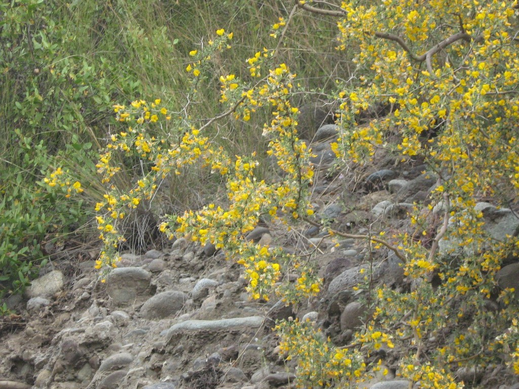 Adesmia microphylla Hooker et Arnott, vernacular name palhuen, Coastal Matorral, Central Chile.